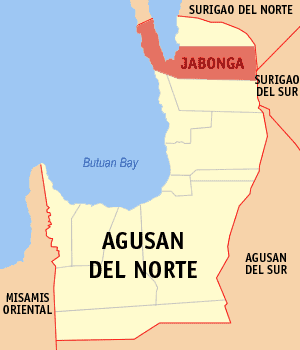 Map of the Agusan del Norte showing the location of Jabonga